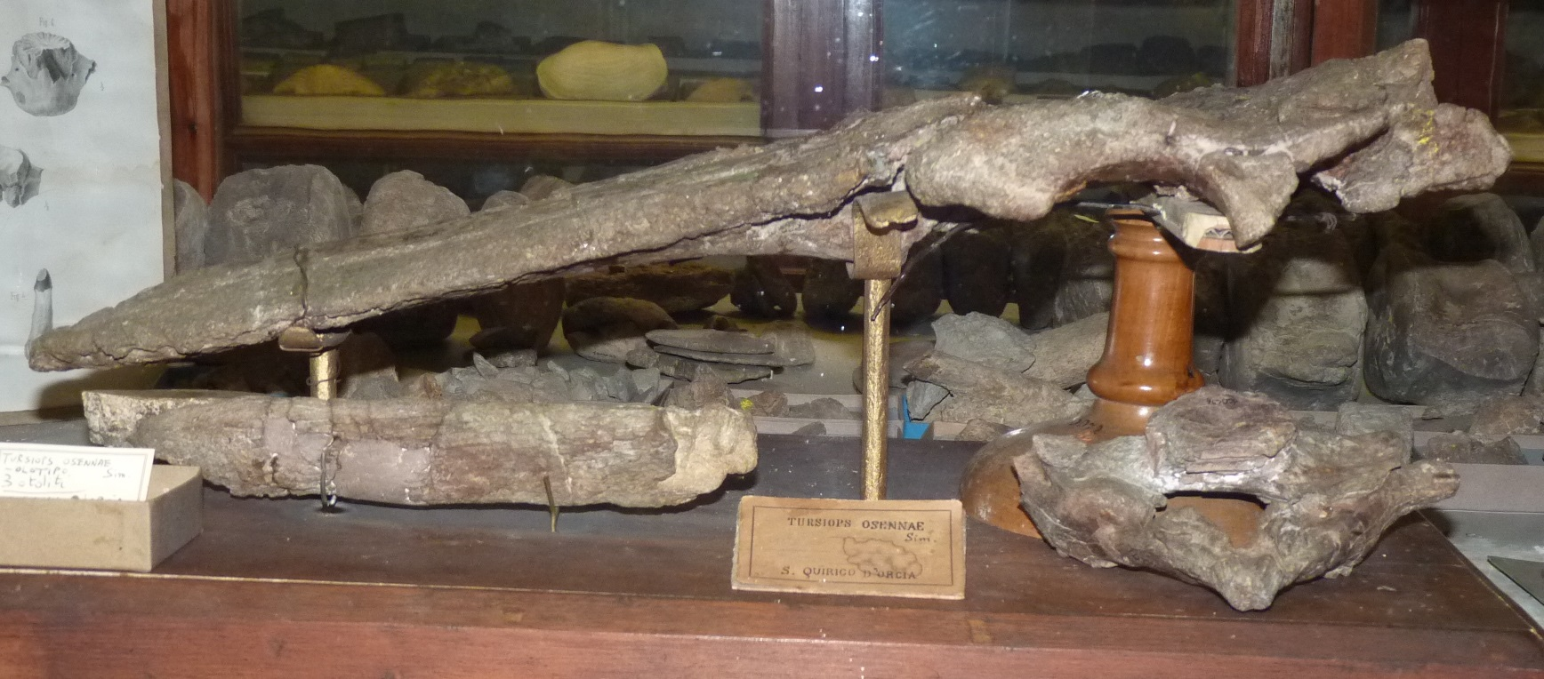 Skull of Tursiops osennae, a fossil dolphin from the Calabrian of San Quirico d'Orcia, Siena (Italy). Museo Geologico Giovanni Capellini, Bologna.